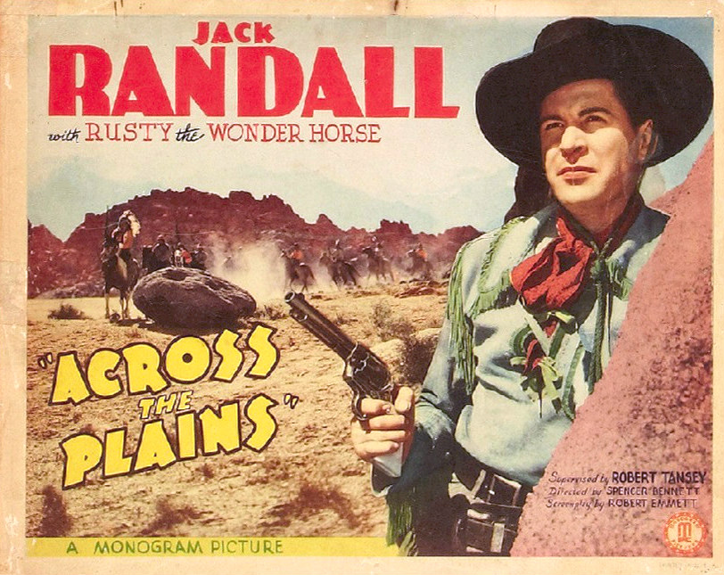 Lobby card for the 1939 film Across the Plains. There are no copyright marks. At bottom right is Printed in USA.